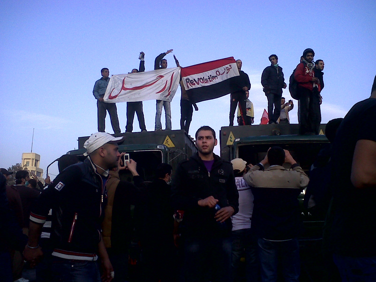 25-01-2011, Imbaba, Cairo. Ppl took over 2 security trucks, wt banners saying "LEAVE"